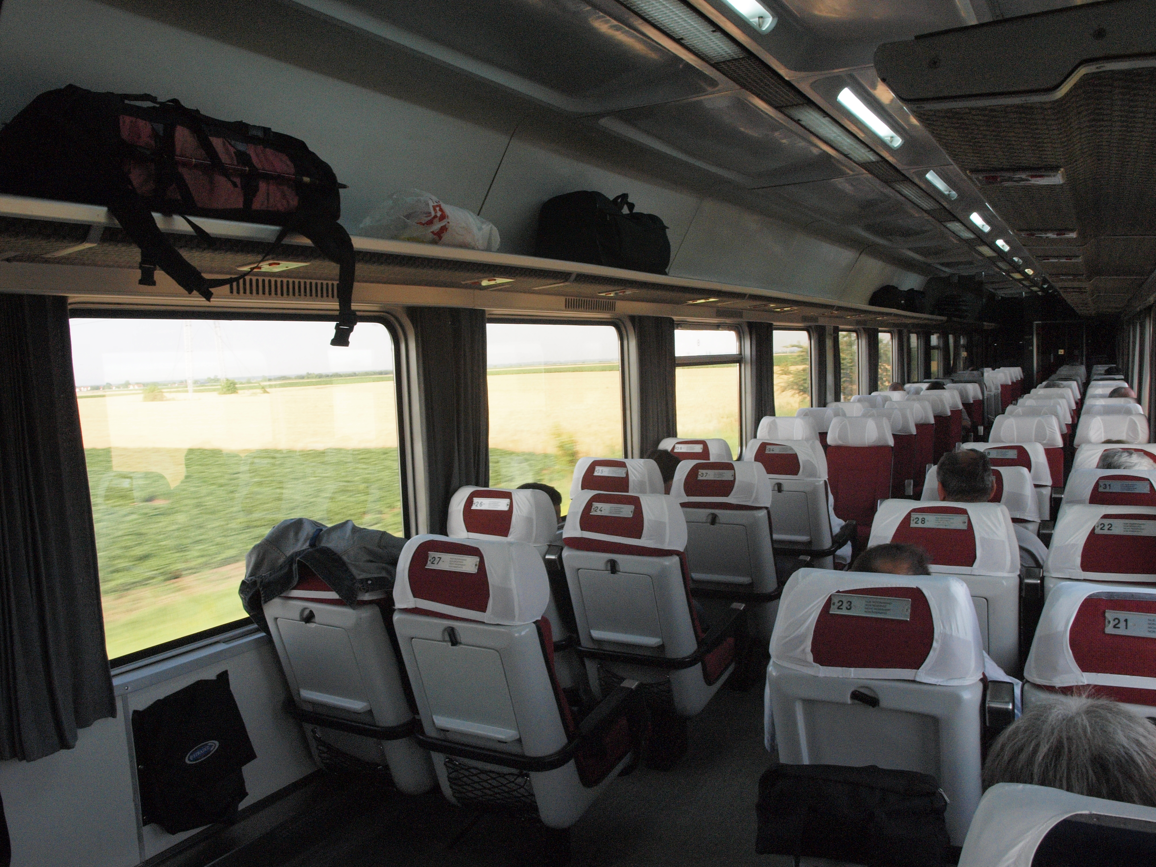 A Gosa carriadge on the Sava Express (Munich-Belgrade relation)